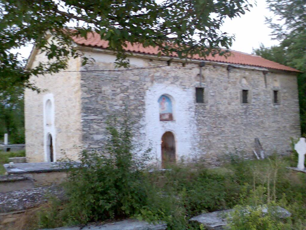 Village of Lokvica, Poreche region, Republic Macedonia